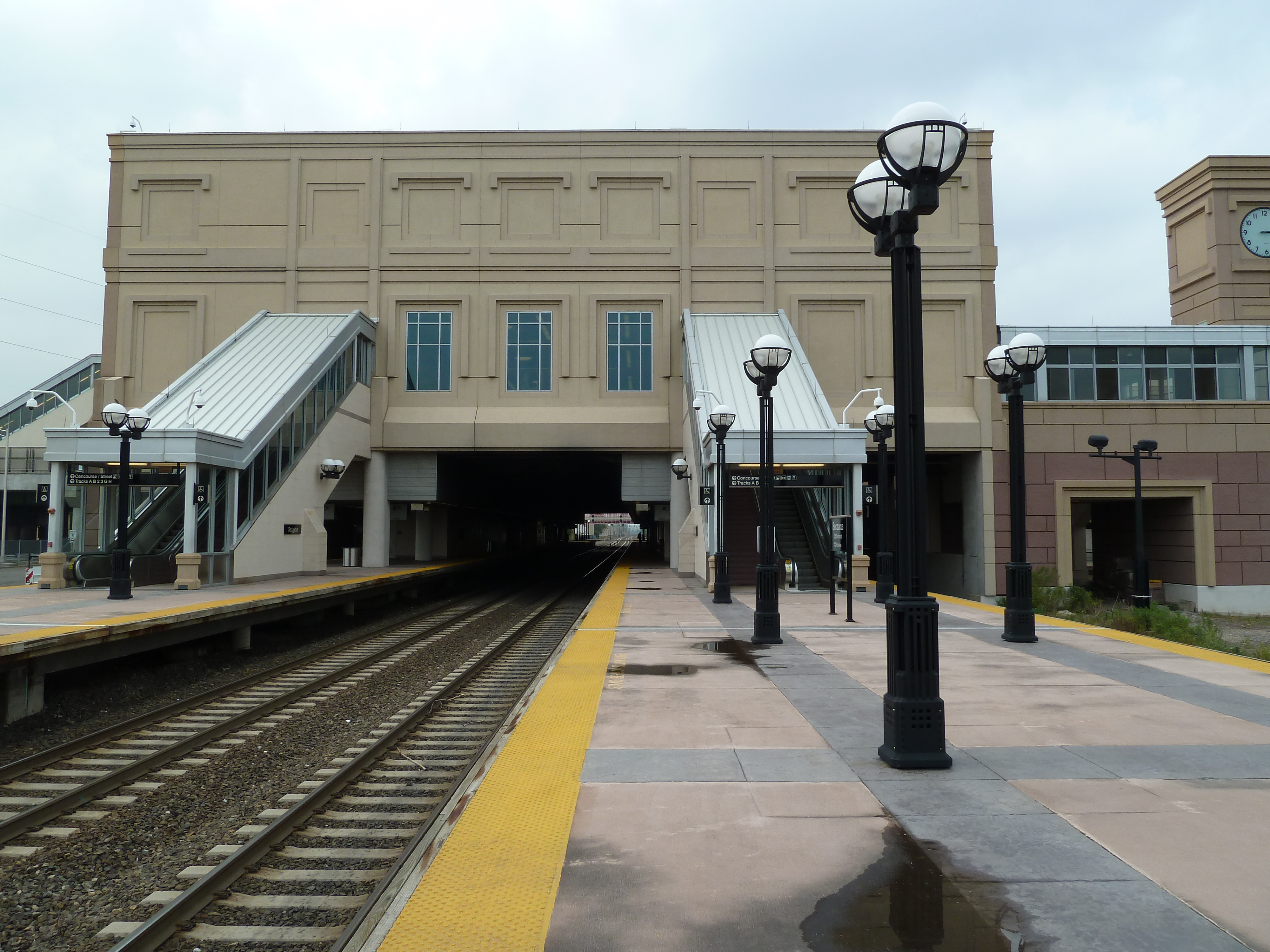 Island platform on the lower level of Secaucus Junction station, looking outbound